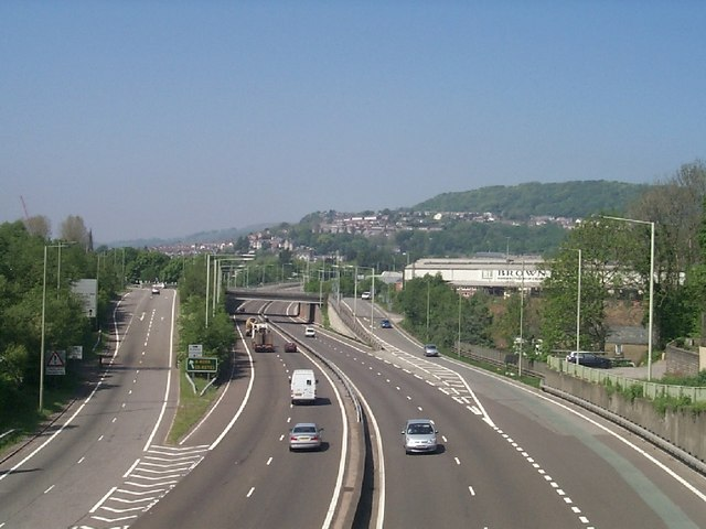 A470 North, Pentrebach